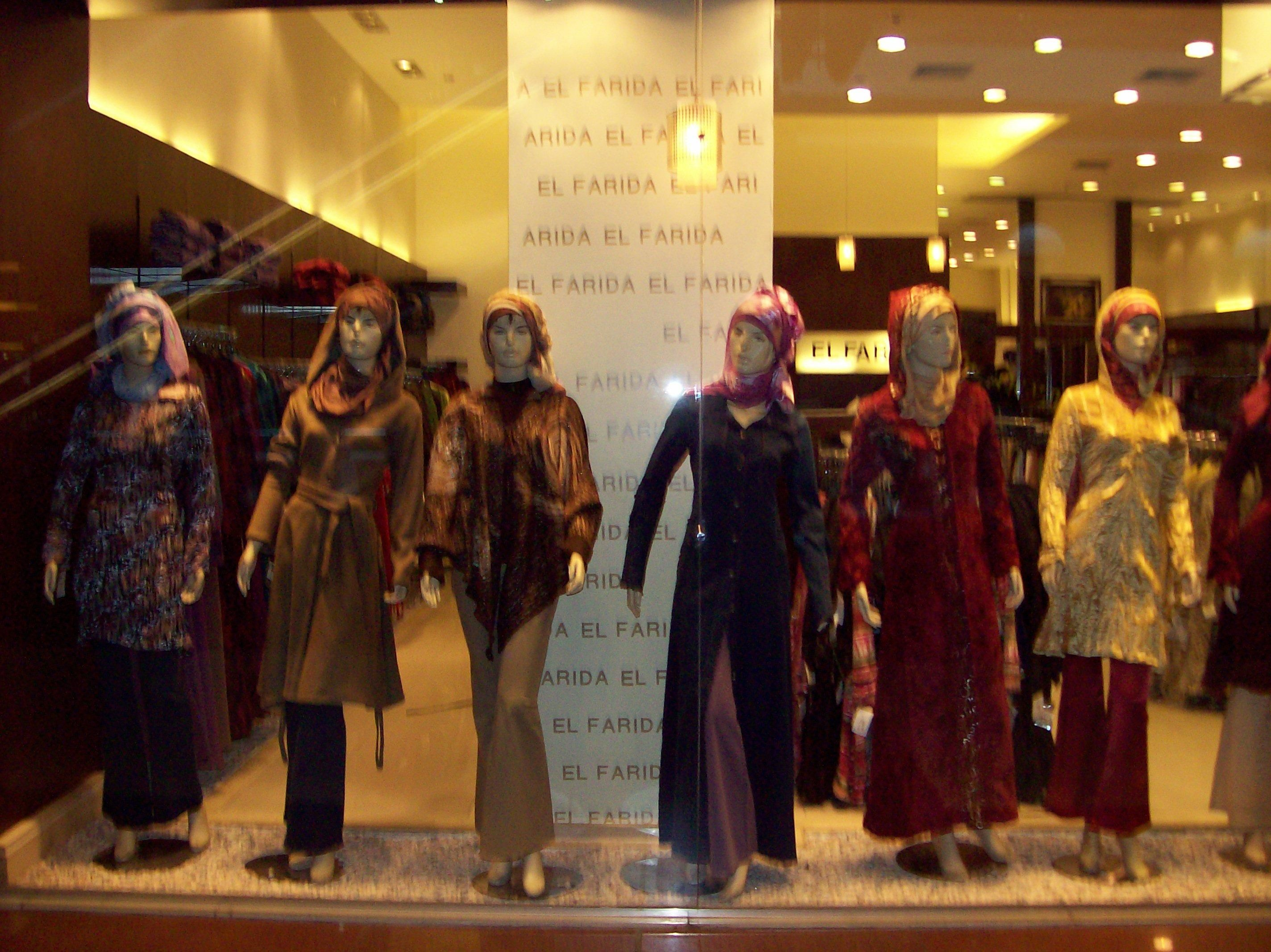 Image title: Window shopping in Cairo Image from Public domain images website